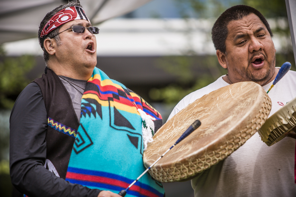 Squamish003Squamish Pole Raising Ceremony - North Vancouver - 002